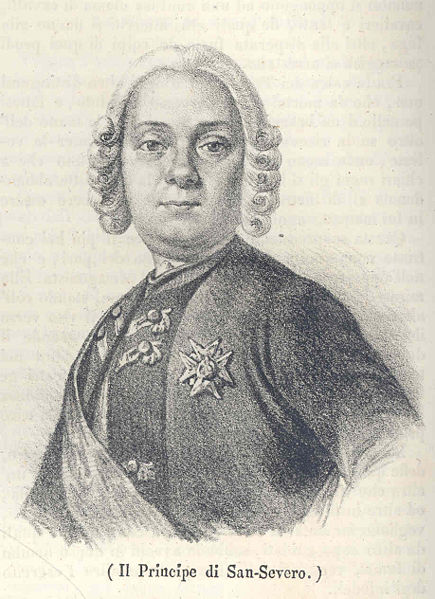 scanned from a work published in 1836, drawing of Raimondo di Sangro